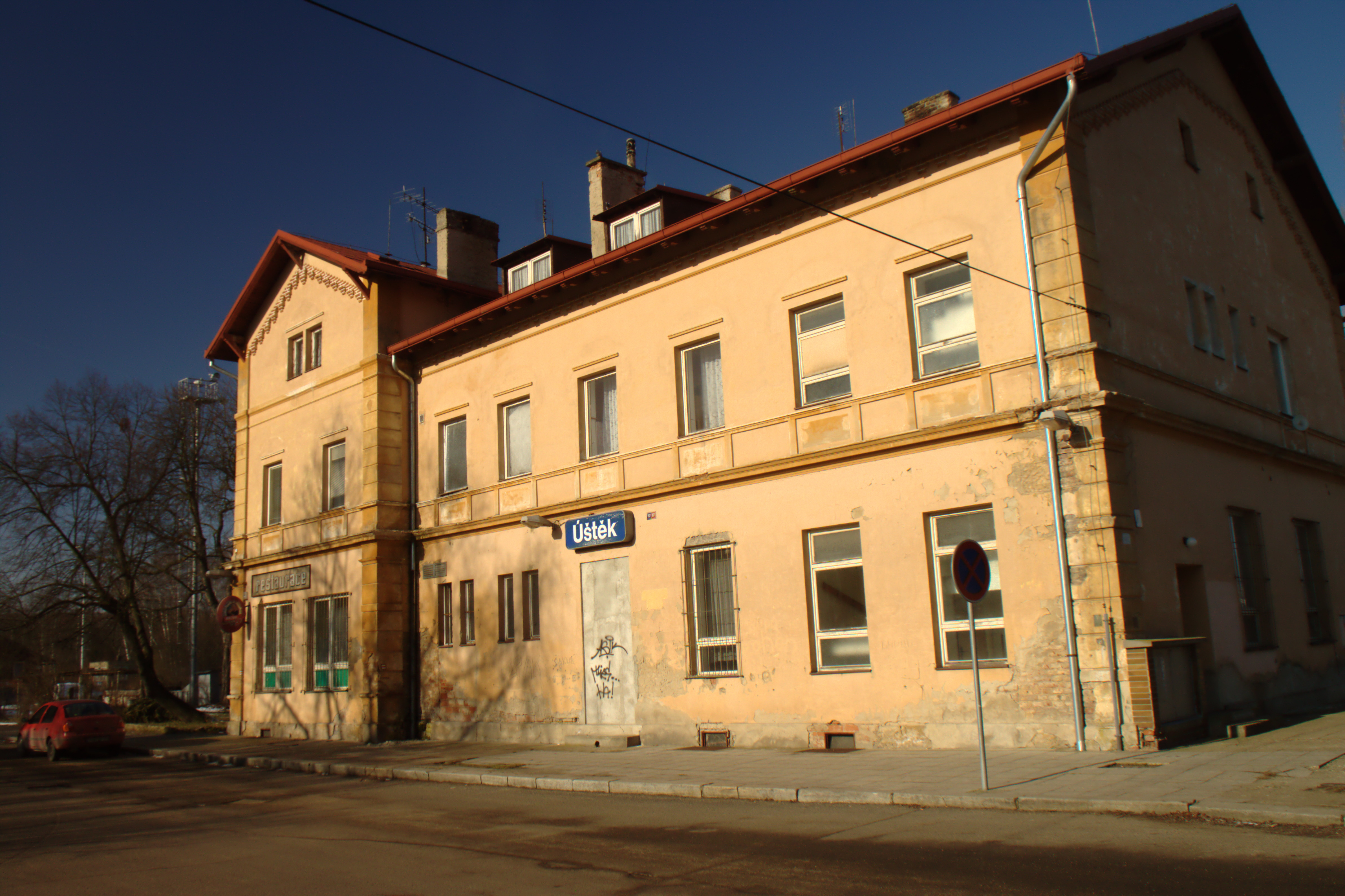 Train station building in Úštěk, Ústí Region, CZ